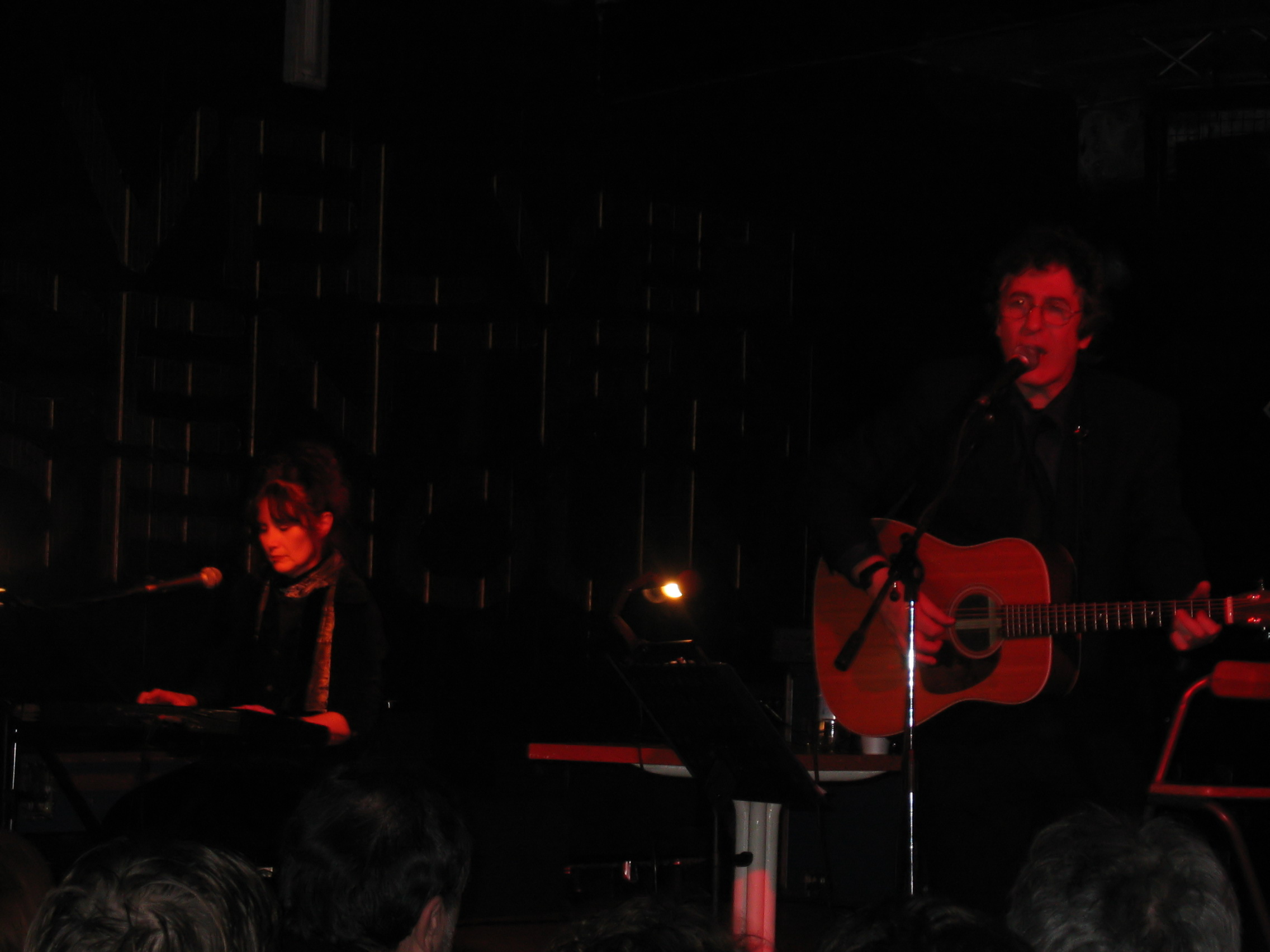 Pietra Wexstun (l) and Stan Ridgway (r)